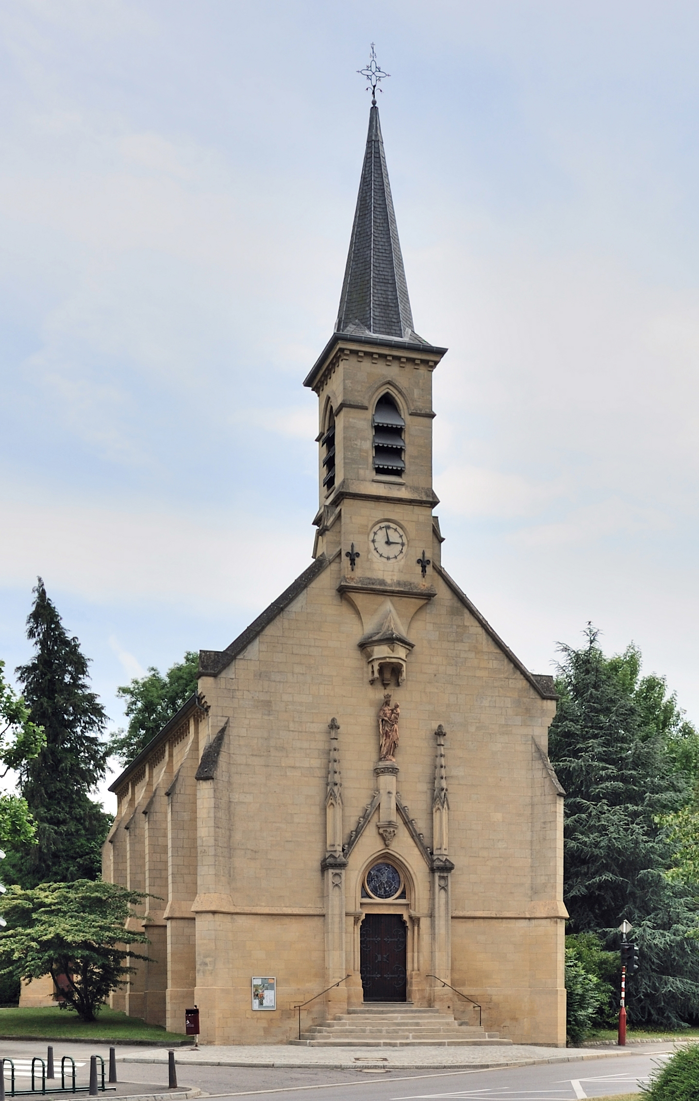 Luxembourg City: Glacis Chapel, inaugurated in 1885.